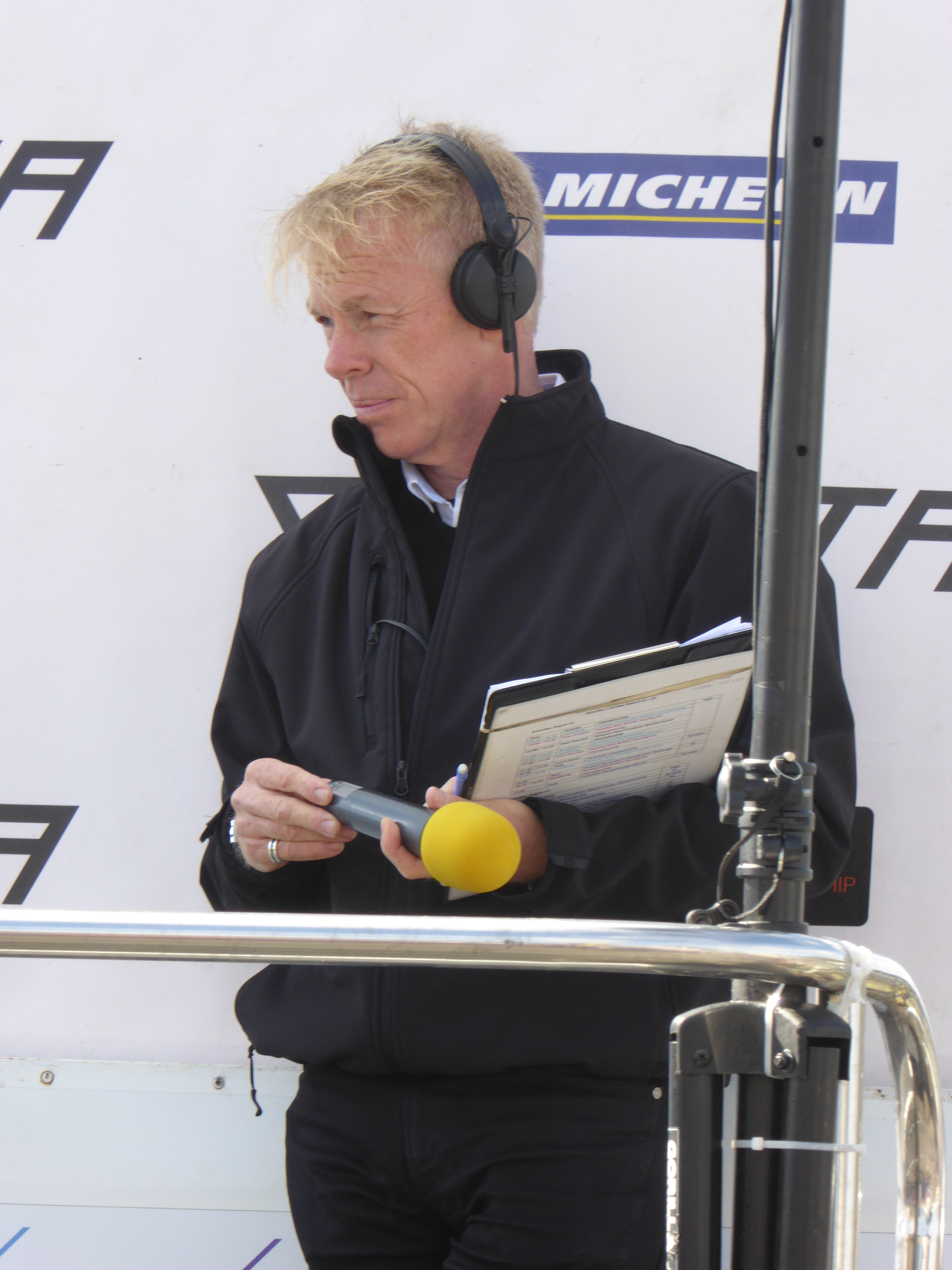 Trackside commentator Alan Hyde, at the Knockhill round of the 2017 British Touring Car Championship.